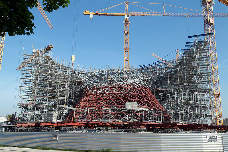 BMW-Welt in Munich with Hünnebeck scaffolding system.